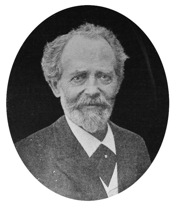 The Danish architect, Vilhelm Dahlerup